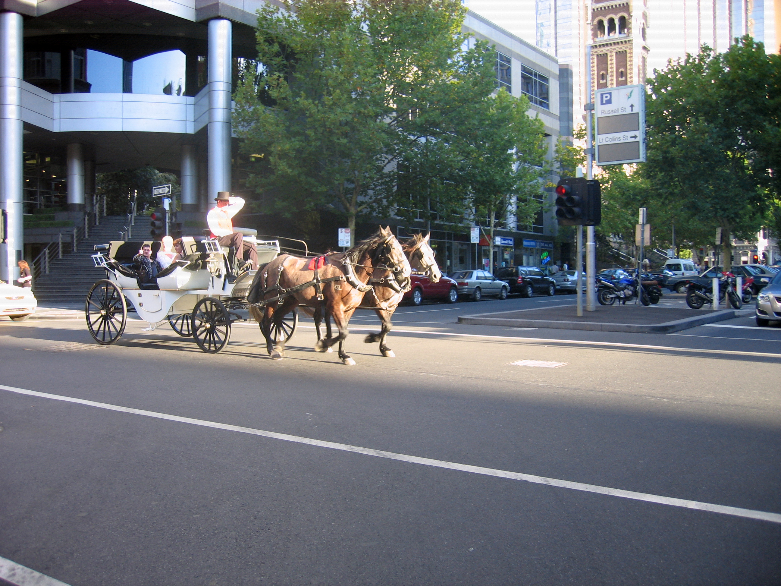 Horse car in Melbourne downtown